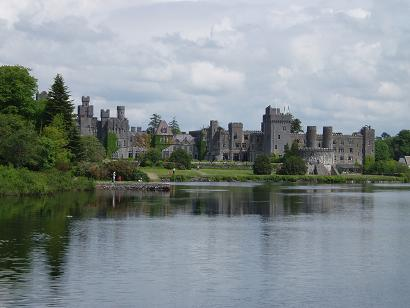 Ashford Castle. Photo taken from the boat tour of Lough Corrib, May 31, 2005.